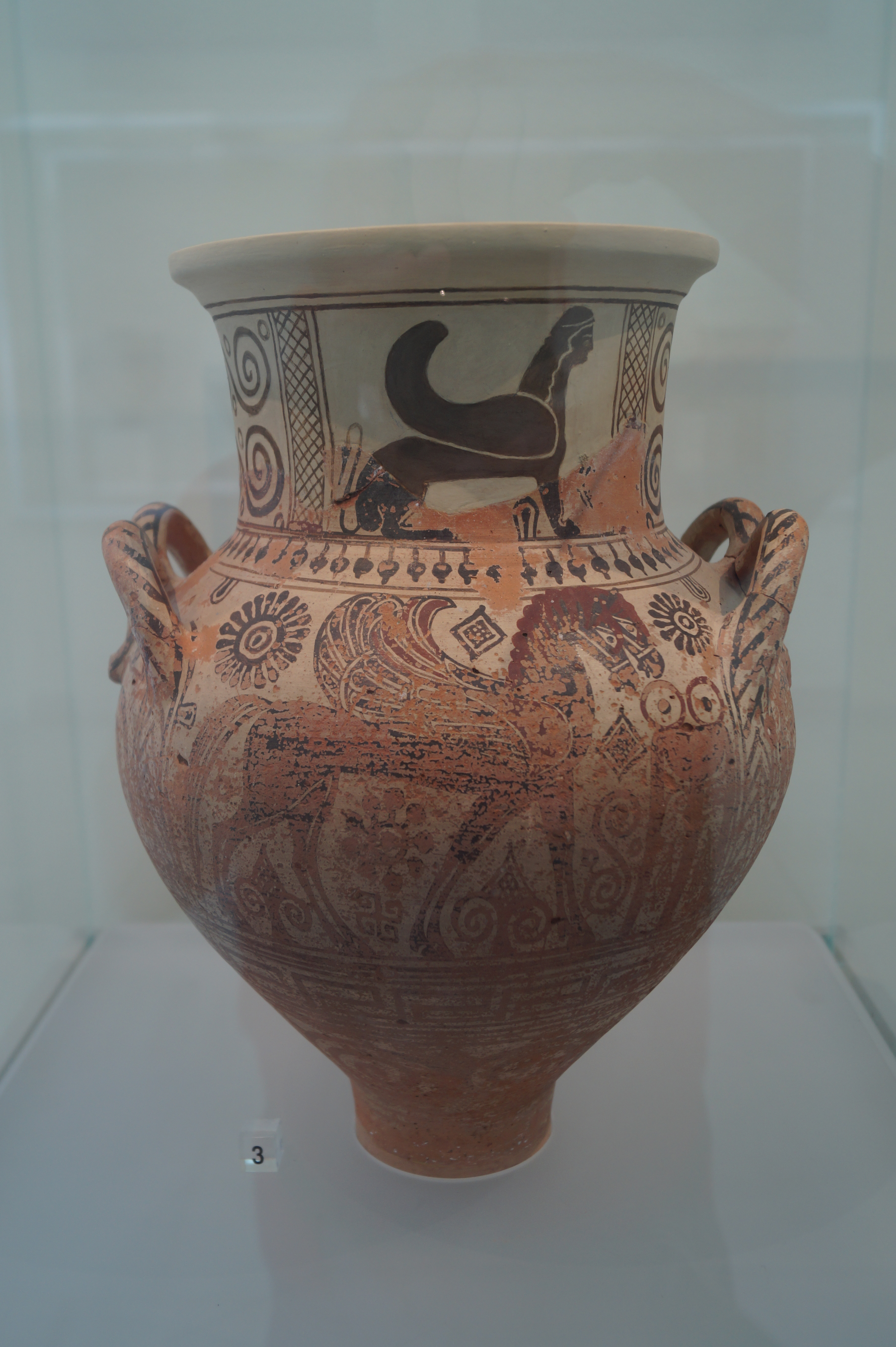 Kavala, Makedonia, Greece: Archaeological Museum of Kavala: Parian jar from the cemetery of Oesyme (650-600 BC)